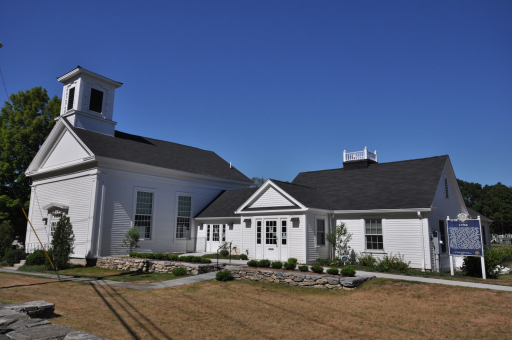 Town Hall, Lyme, Connecticut.